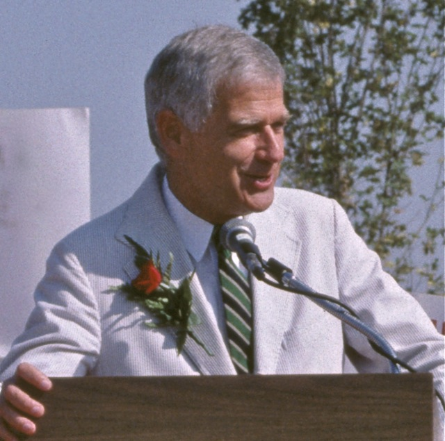 U.S. Senator Mark Hatfield speaking in Portland's Gateway district, at the second of three ceremonies celebrating the opening of the first MAX light rail line, in 1986.